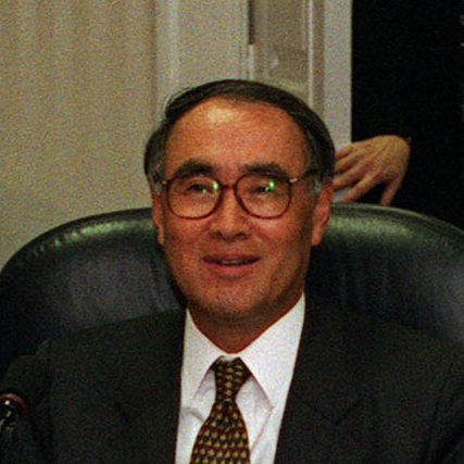 Lee, Hong Koo (이홍구), member of the South Korea delegation as the 31st Annual U.S.-Republic of Korea Security Consultative Meeting in the Pentagon on Nov. 23, 1999.